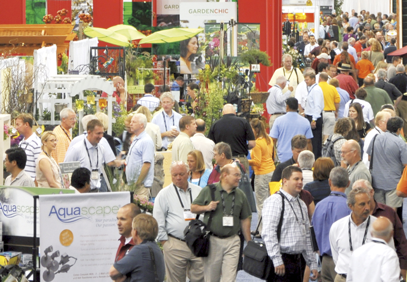 An image of the ICG trade show floor showing booths of different vendors surrounded by attendees.